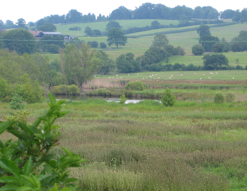 Quoisley Little Mere, near Marbury, Cheshire, viewed from track to Mere Farm